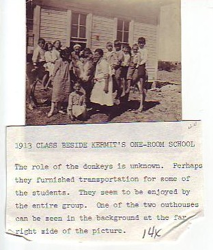 This is an image of the one room school biulding with a class in Kermit, Texas in 1913. This stucture was biult in 1910 and was demolished sometime in the early in 1930's.